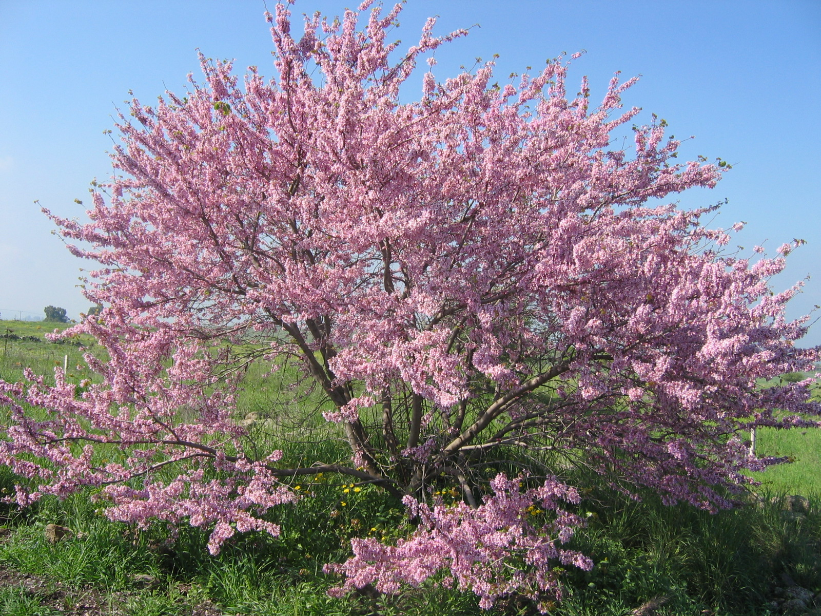 Geography of Israel